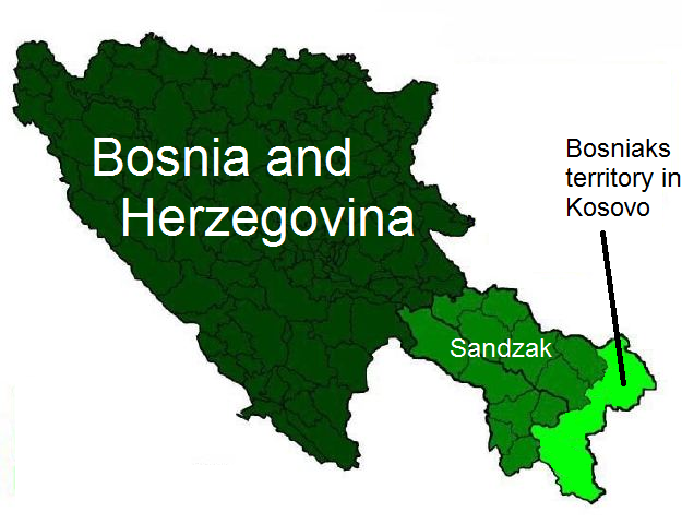 Map of Greater Bosnia